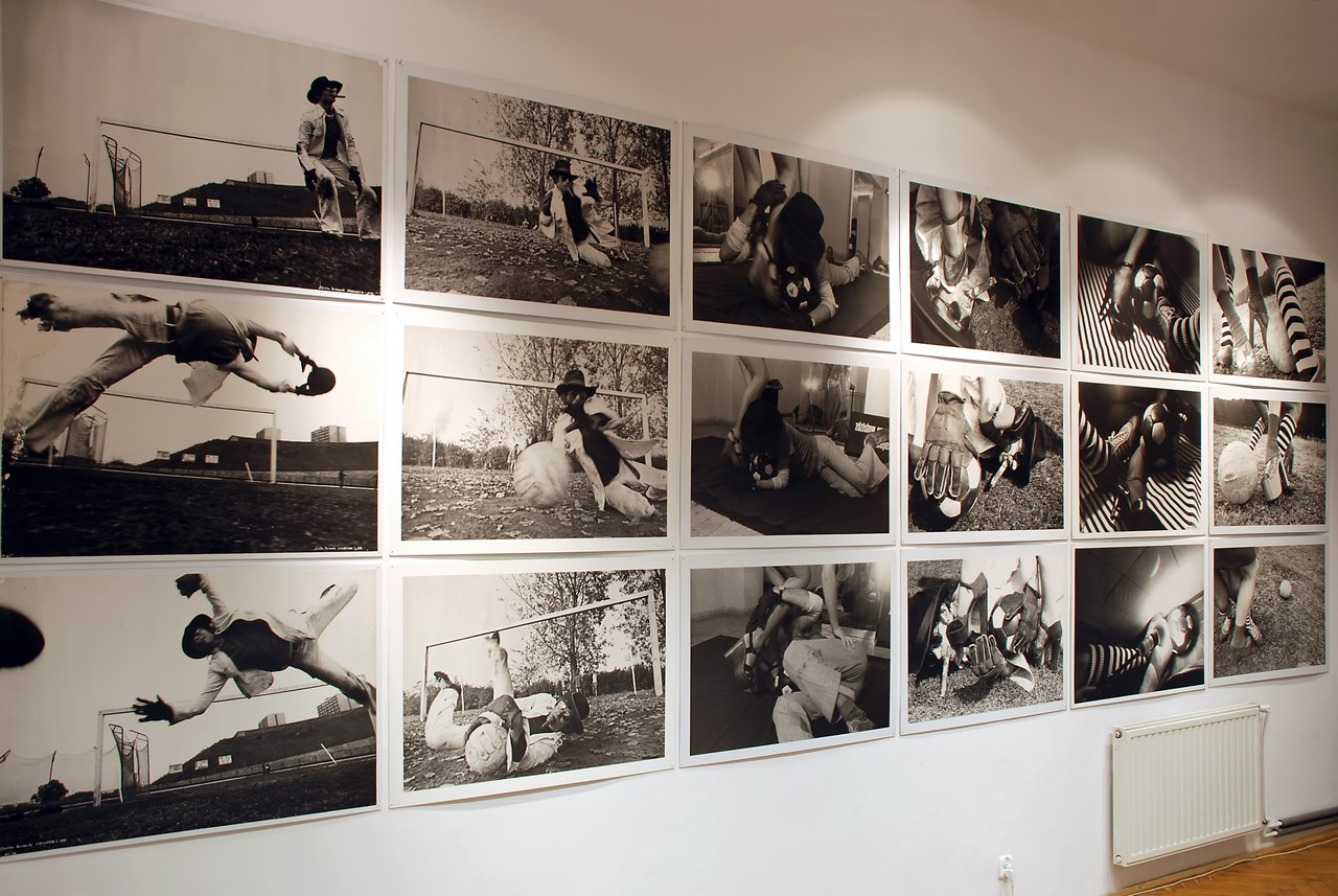 Zdzisław Sosnowski, Goalkeeper, 1975-1977